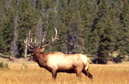 A bull elk (Cervus canadensis) bugling during the fall mating season in Shoshone National Forest, Wyoming, United States